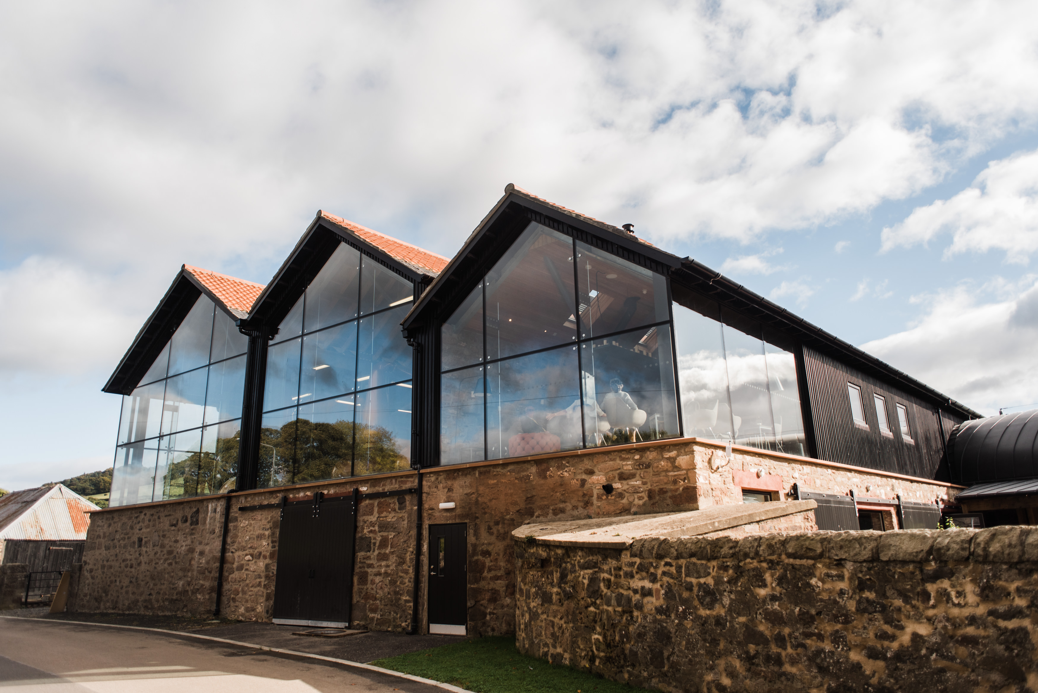 Lindores Abbey Distillery Stillroom